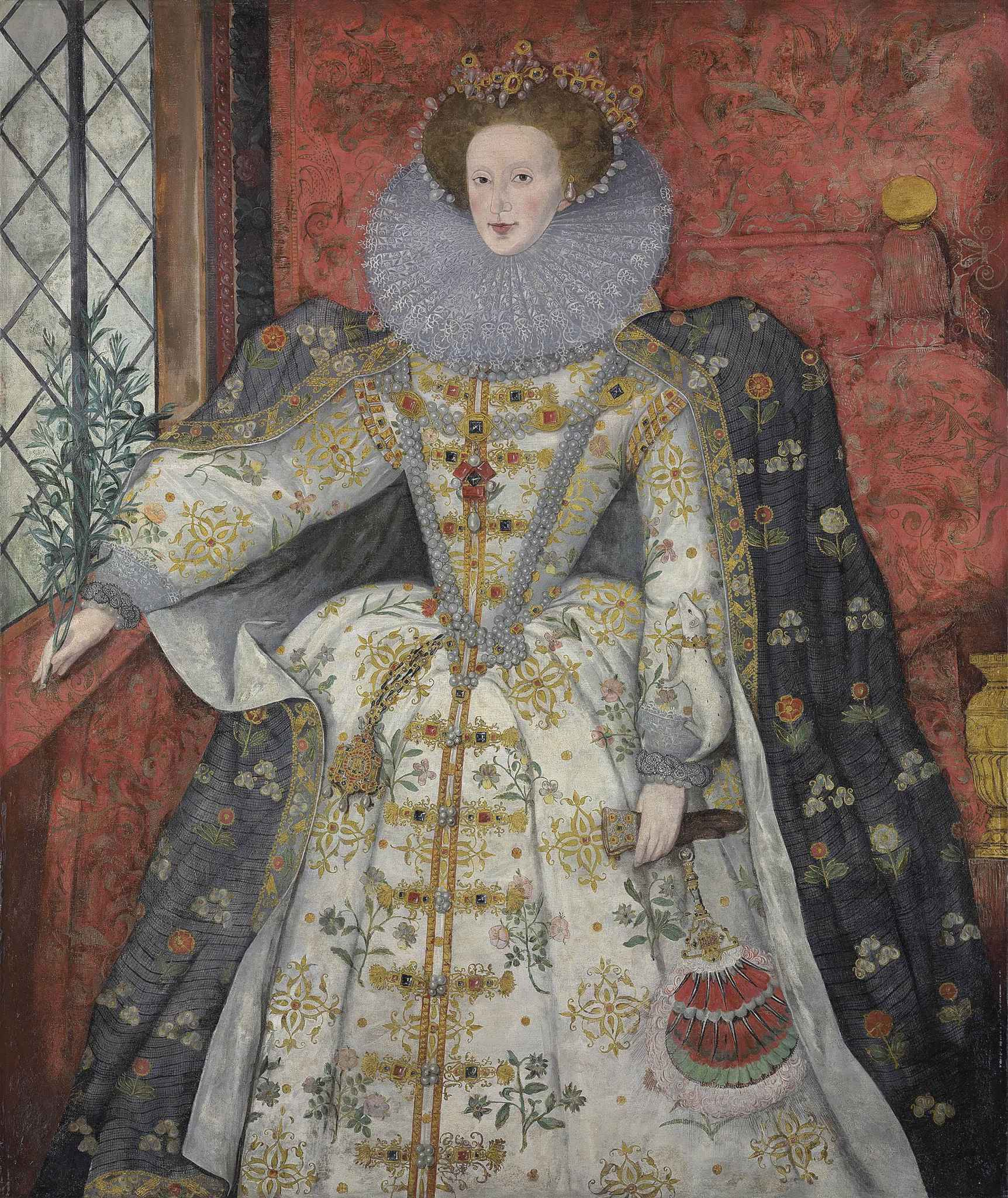 Portrait of Elizabeth I of England c. 1585-90, with an ermine, wearing the jewel called the Three Brothers, and holding an olive branch and a feather fan, standing in an interior. Formerly owned by François de Civille (1537-1610), Knight, Lord of Saint-Mars and Cottévrard, Advisor to King Henri IV, Commissary to the King's Wars, 'Maître d'hôtel' to Catherine of Bourbon, sister to the king, and Governor of Fontaine-Le-Bourg.